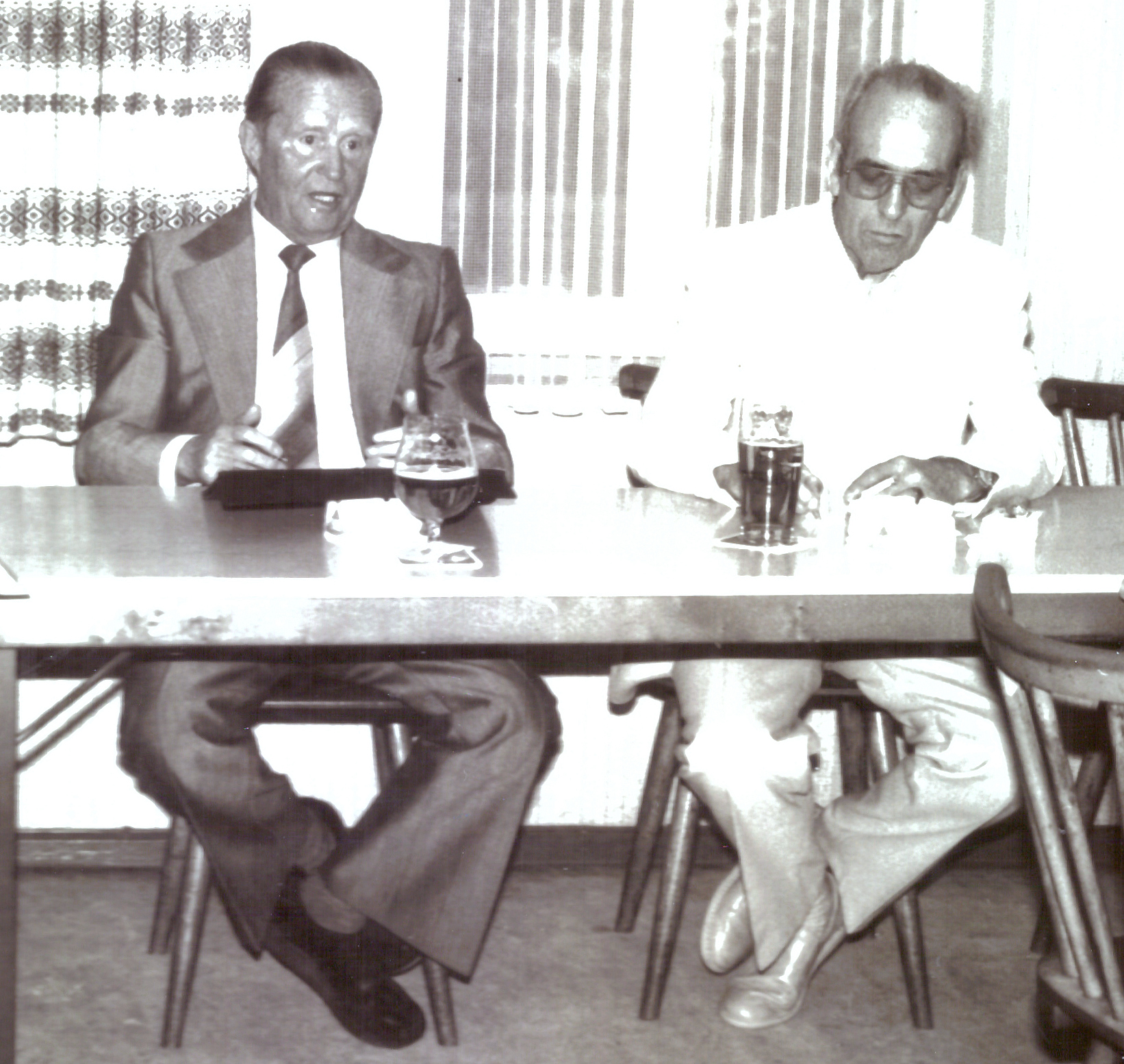 Oskar Soldmann, former member of state parliament (l.), with councillor Hans Keuser during an event of the German socialdemocratic party (SPD) at Schweinfurt in 1984.